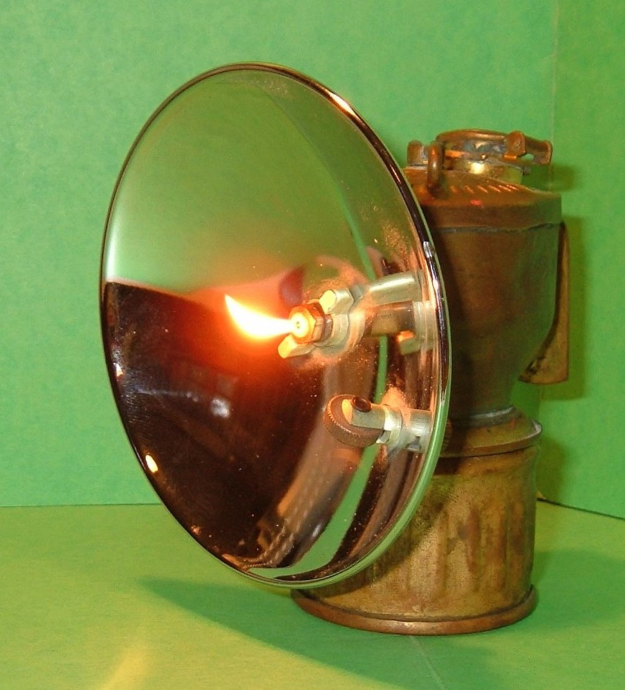 Brass carbide lamp by Justrite.